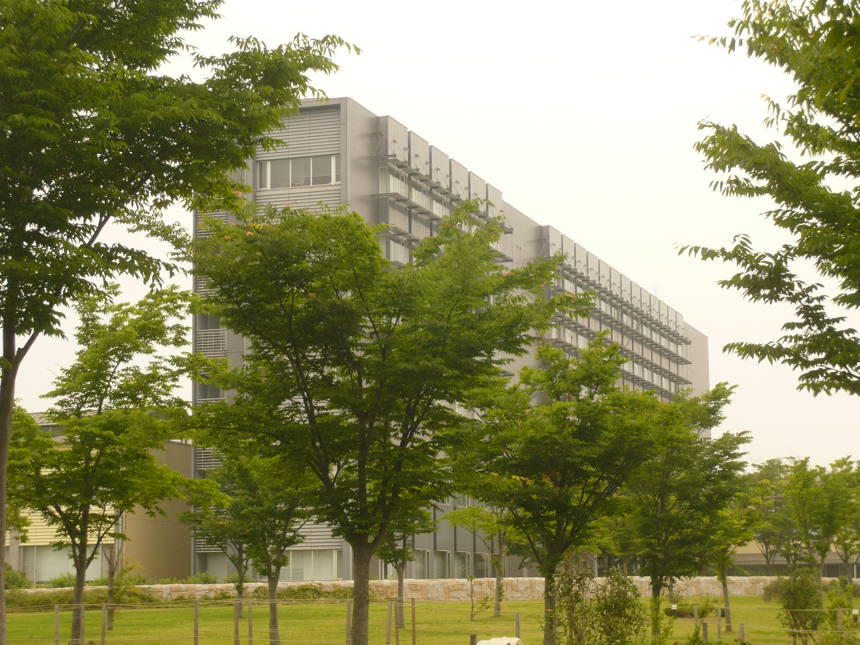 Gifu College of Nursing, Gifu, Gifu, Japan